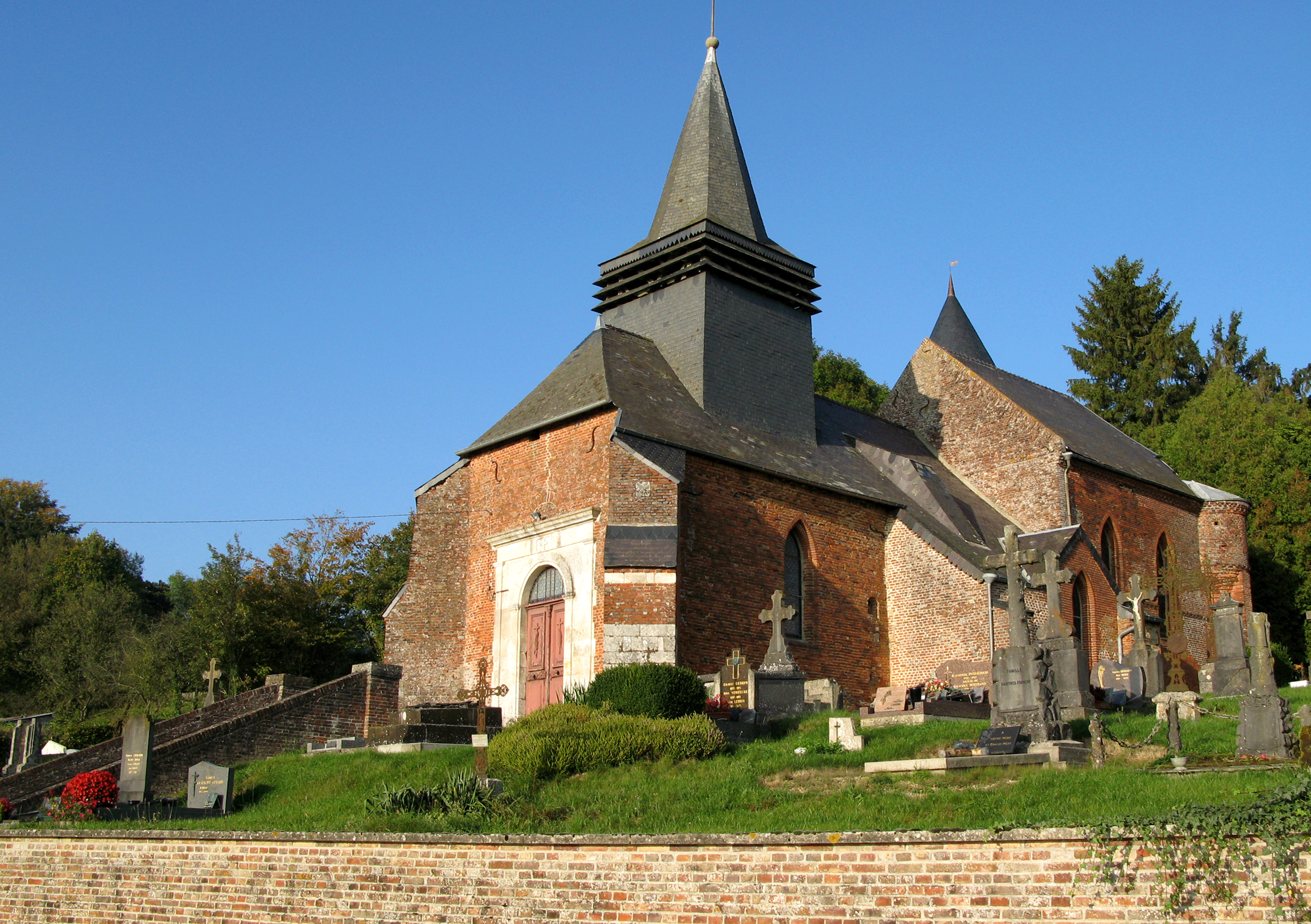 Grandrieux (Aisne, France) - L'église Saint-Nicolas. . This edifice is indexed in the base Mérimée, a database of the French architectural patrimony maintained by the French Ministry of Culture, under the reference PA00115690.